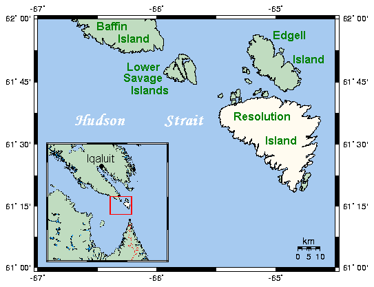 A map, with inset, of Resolution Island, Nunavut, Canada. This map's source is here, with the uploader's modifications, and the GMT homepage says that the tools are released under the GNU General Public License.